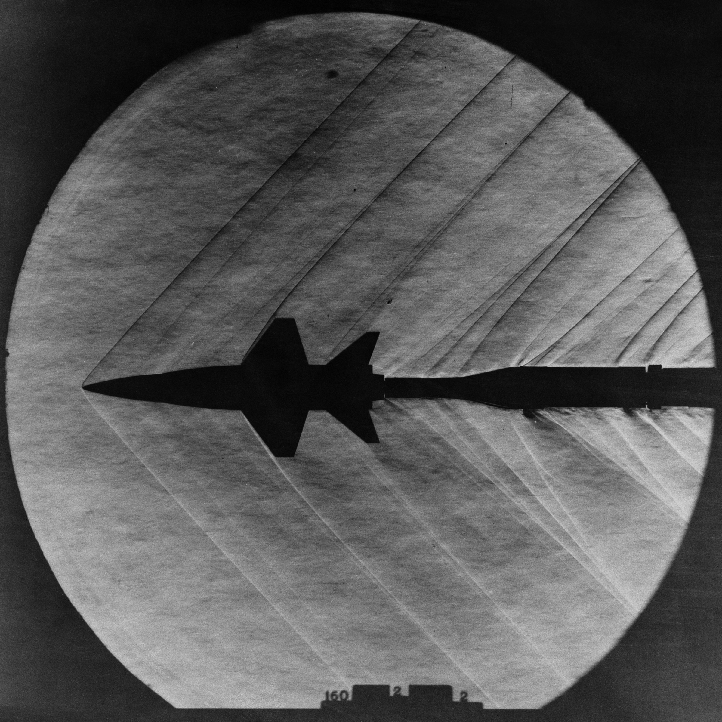 Shock waves festoon a small scale model of the X-15 in Langley's 4 x 4 Supersonic Pressure Tunnel.